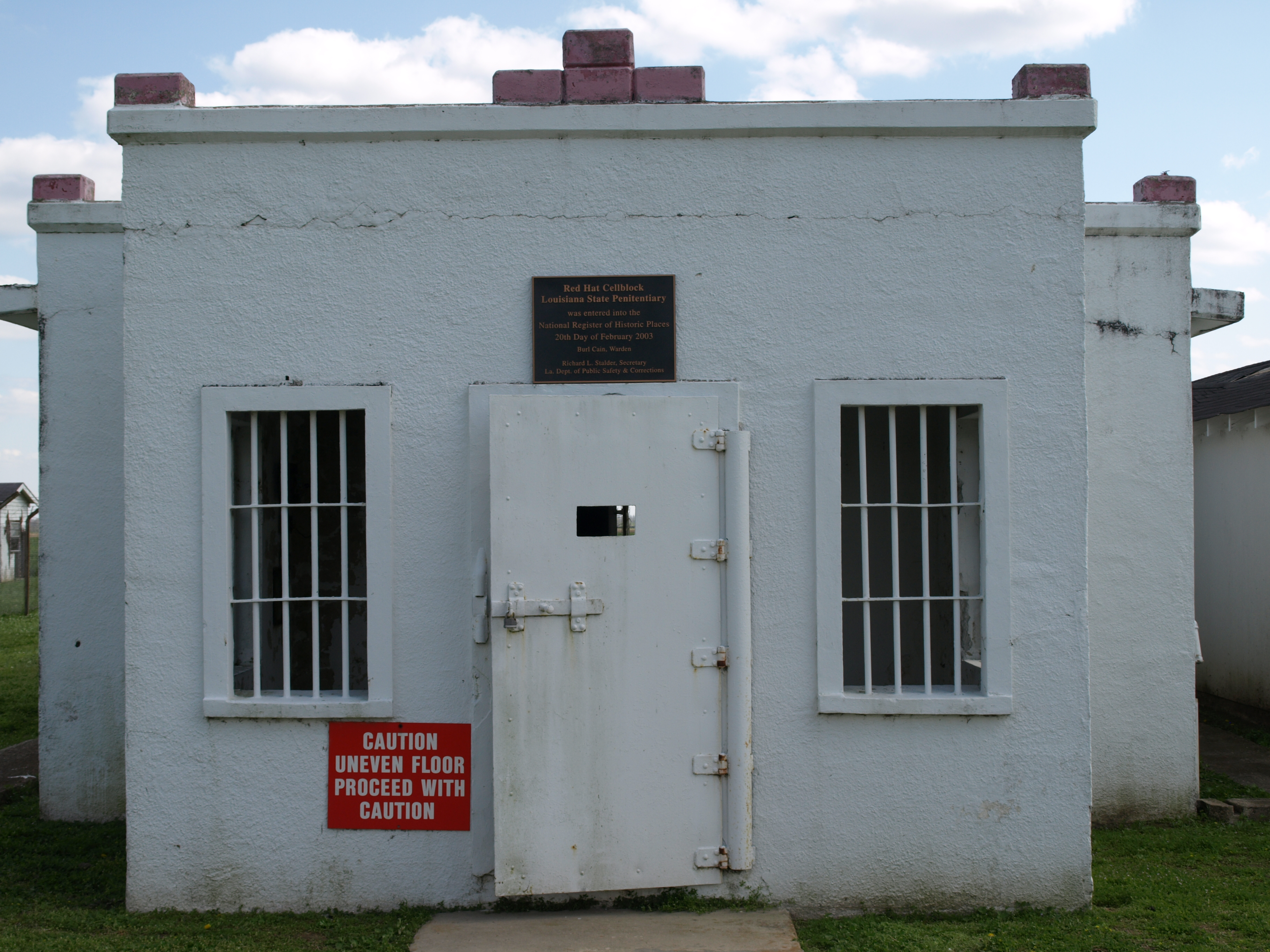 Front door of the Red Hat Cell Block